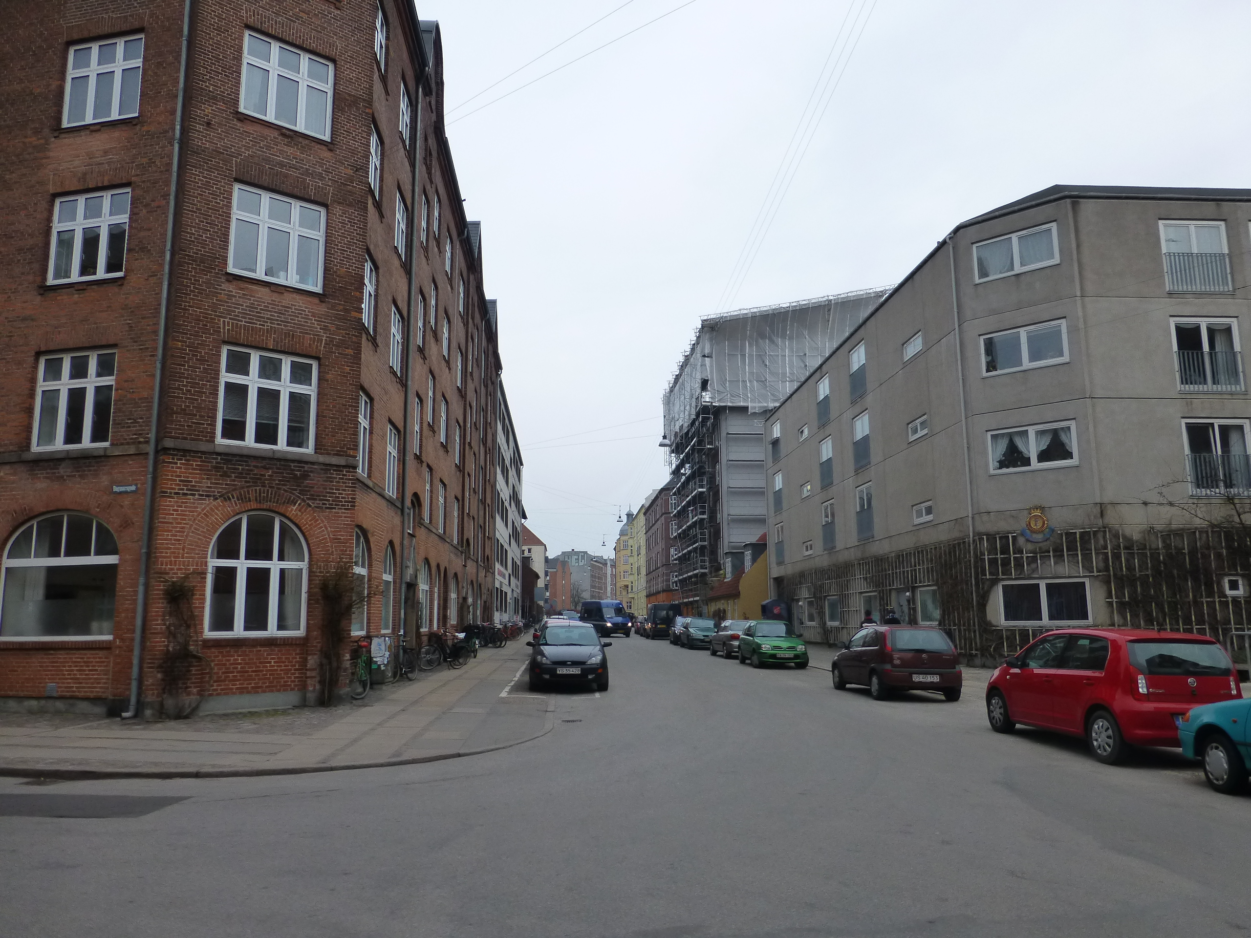 Thorsgade is a street in Nørrebro in Copenhagen.